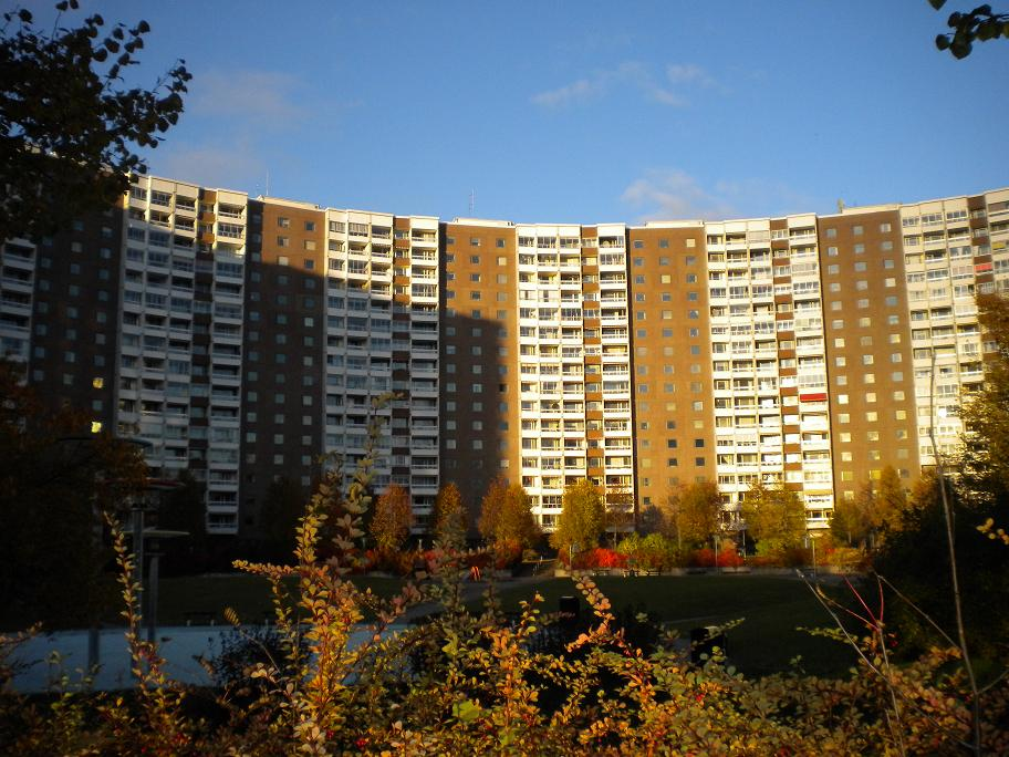 Storstugan Building (apartments), Täby, Sweden